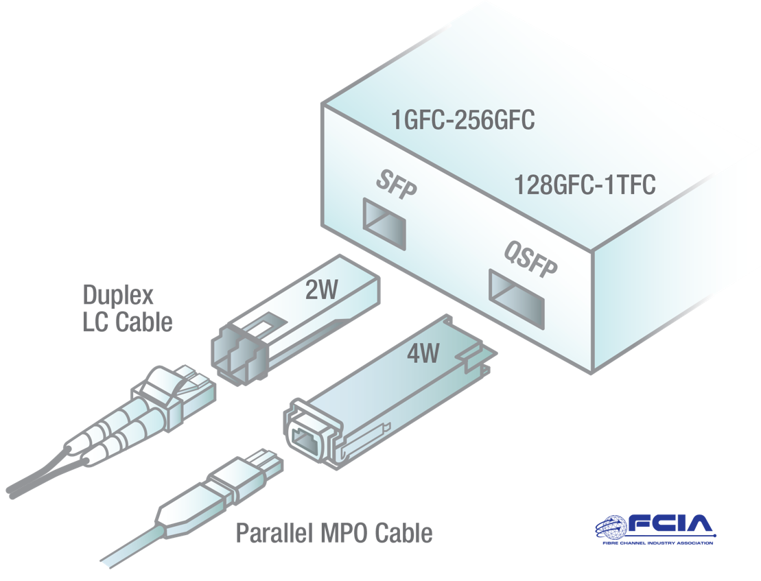 Fibre Channel uses SFP modules for most connections to end devices and began using QSFP modules for 128GFC.